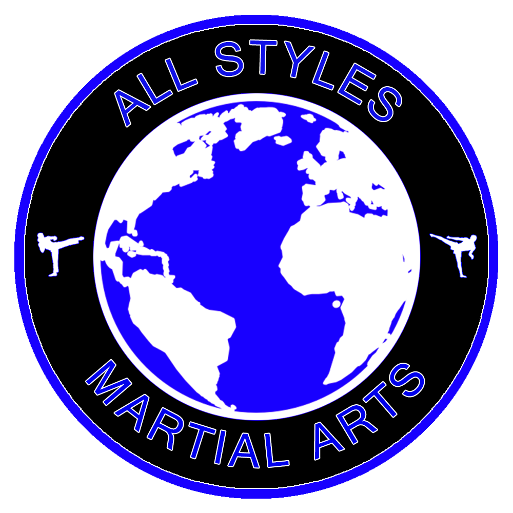 All Styles Martial Arts Logo